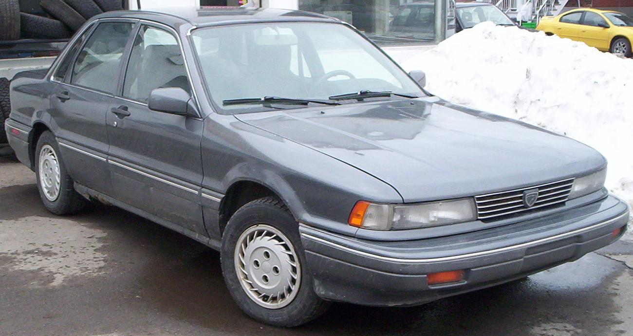 1989-1992 Eagle 2000GTX photographed in Montreal, Quebec, Canada